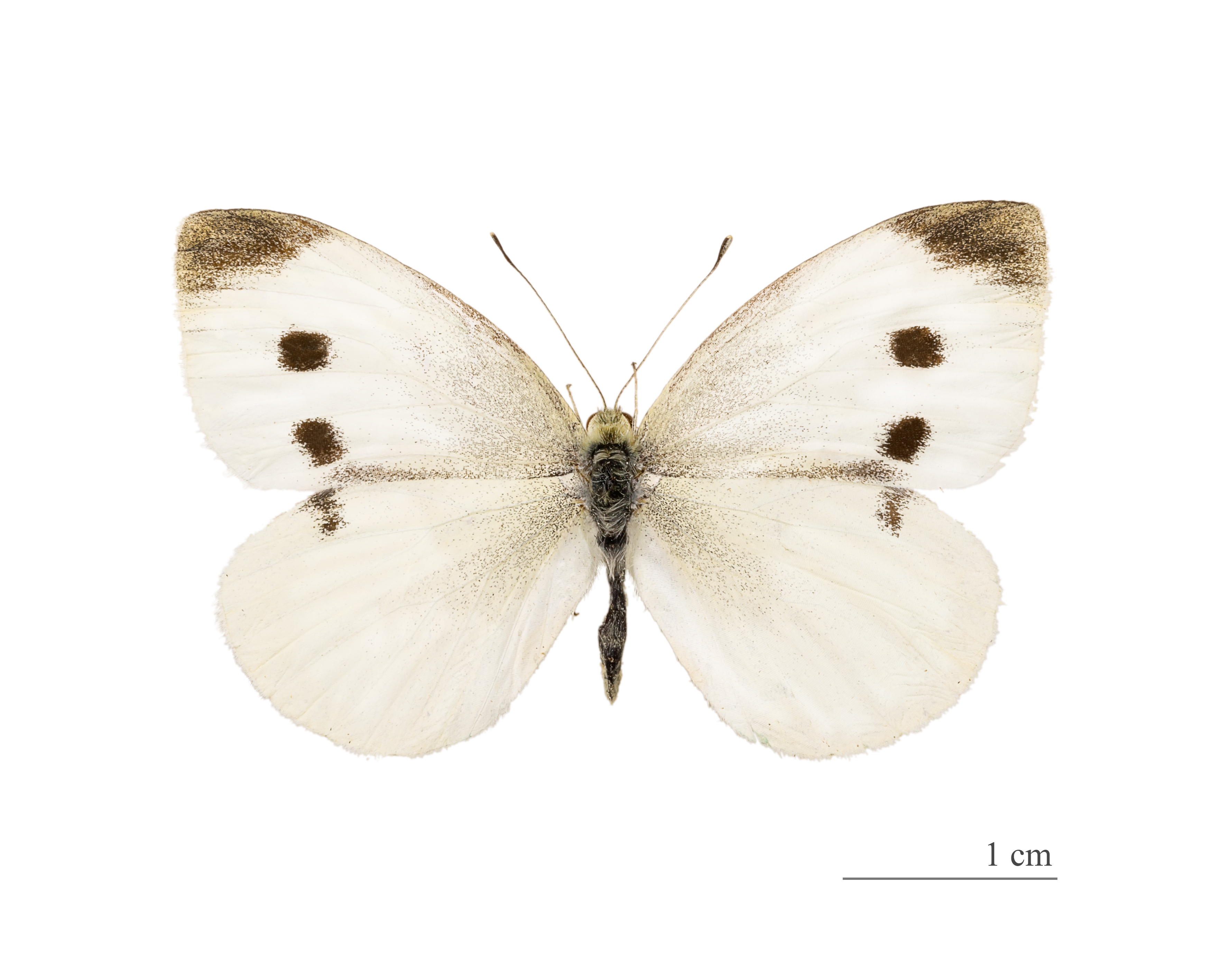 ♀ - Dorsal side Locality: Maourine pond, Toulouse, France .